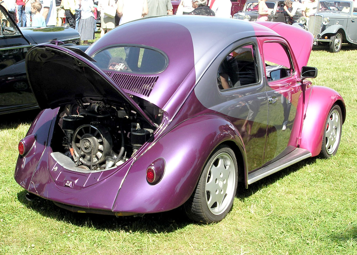 Volkswagen Beetle at Bristol Car Show, The Downs, Bristol, England. The registration year is unknown to me.